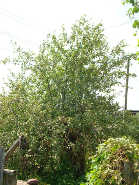 Derevo